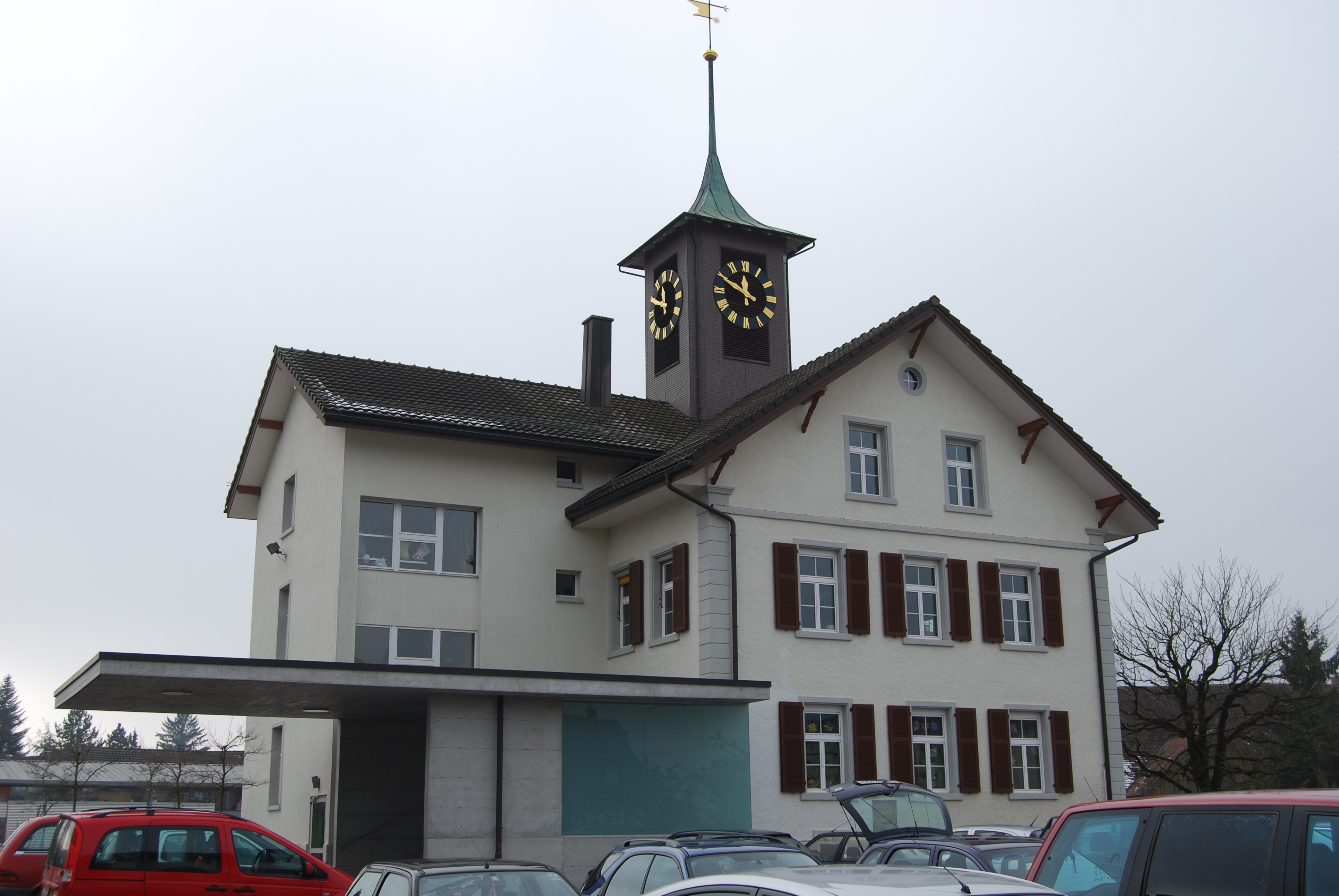 School at Hirschthal, canton of Aargau, Switzerland